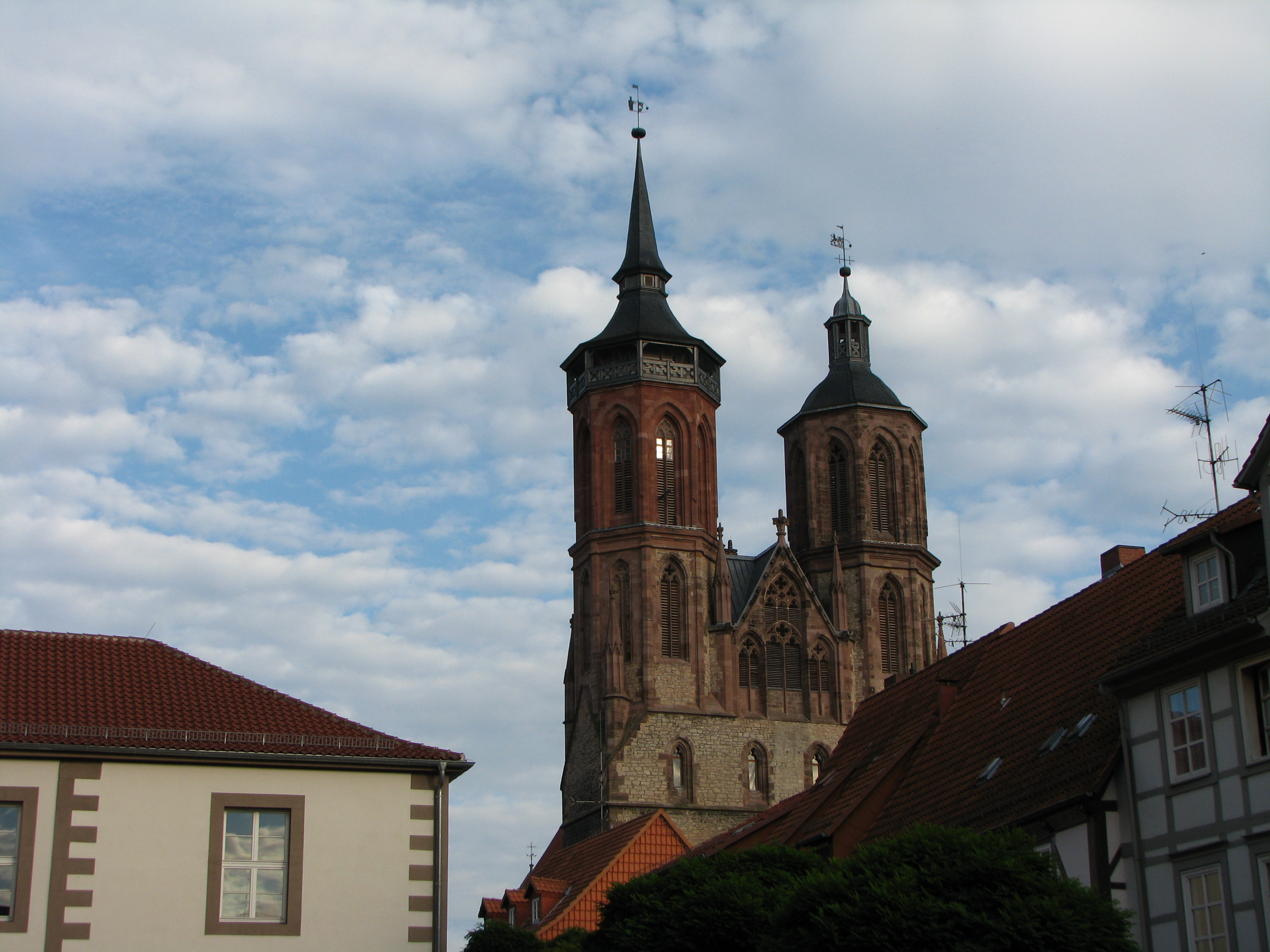 St. Johannis Church at Göttingen, Germany. The two towers are clearly of different size.